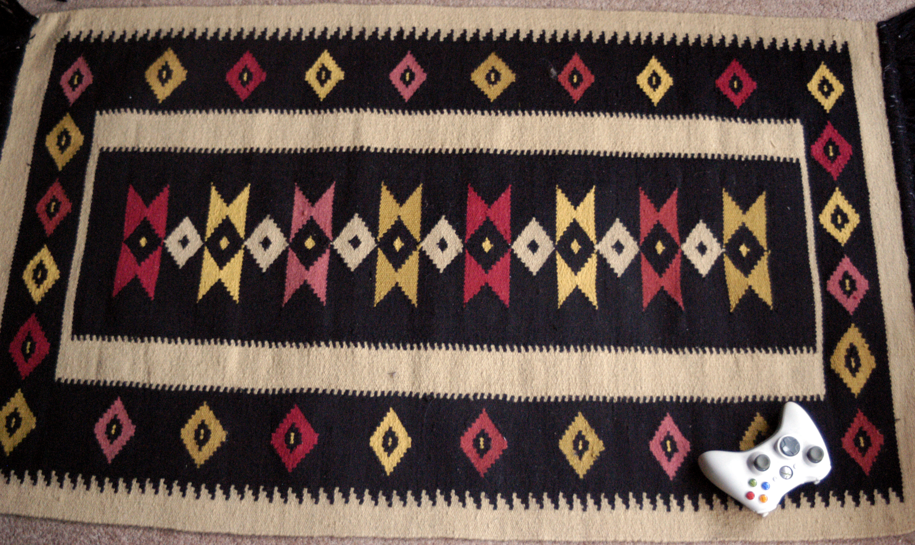 Woolen rug from Gaza, (Atfaluna), 2008.